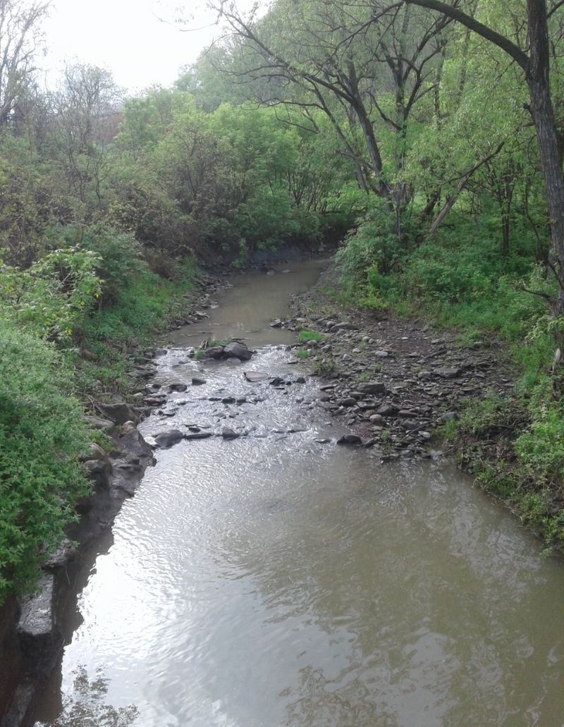 Bowmans Creek north of Clinton Road bridge, located north of the hamlet of Sprout Brook, New York